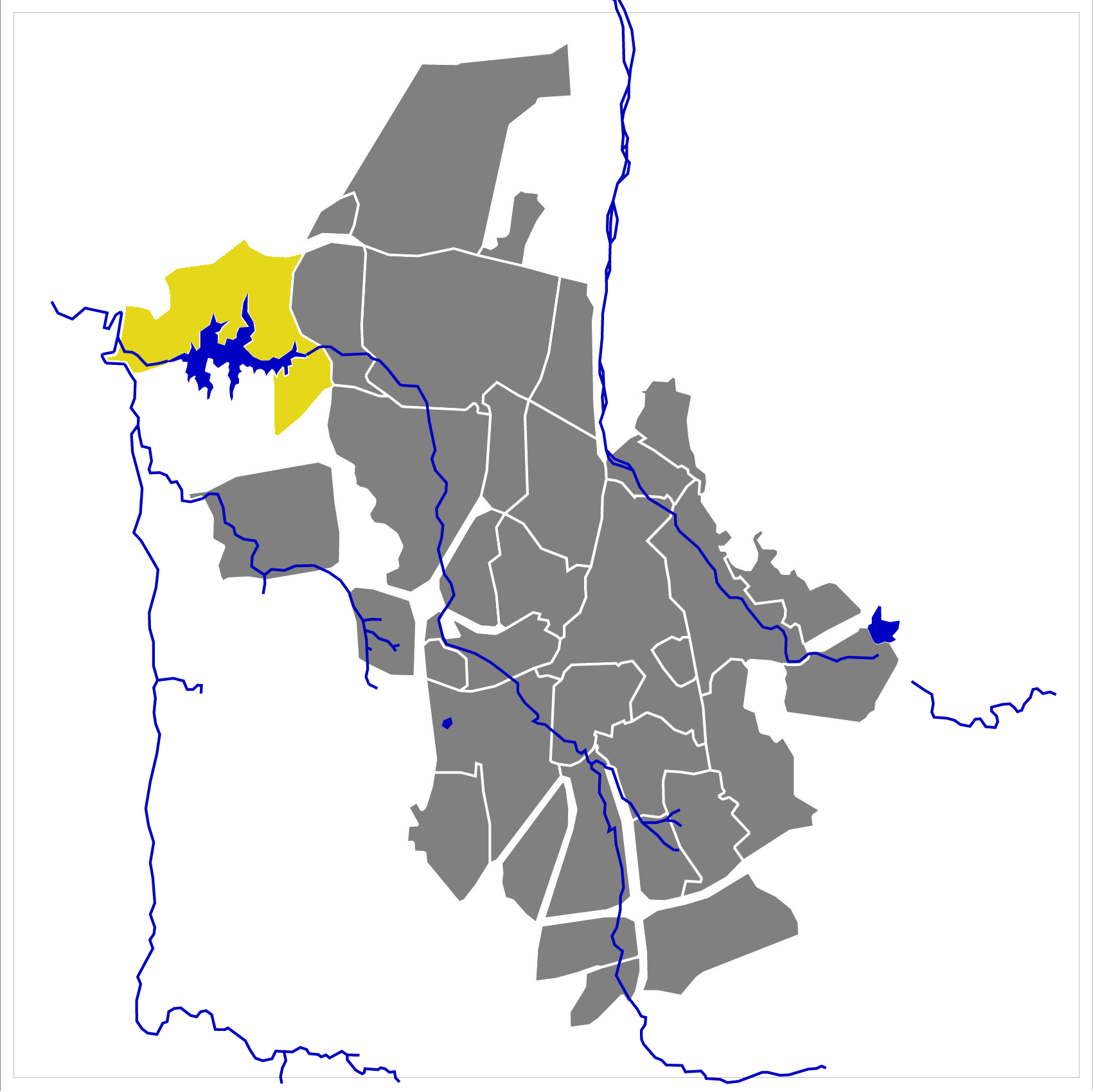 map of Windhoek suburb Goreangab.